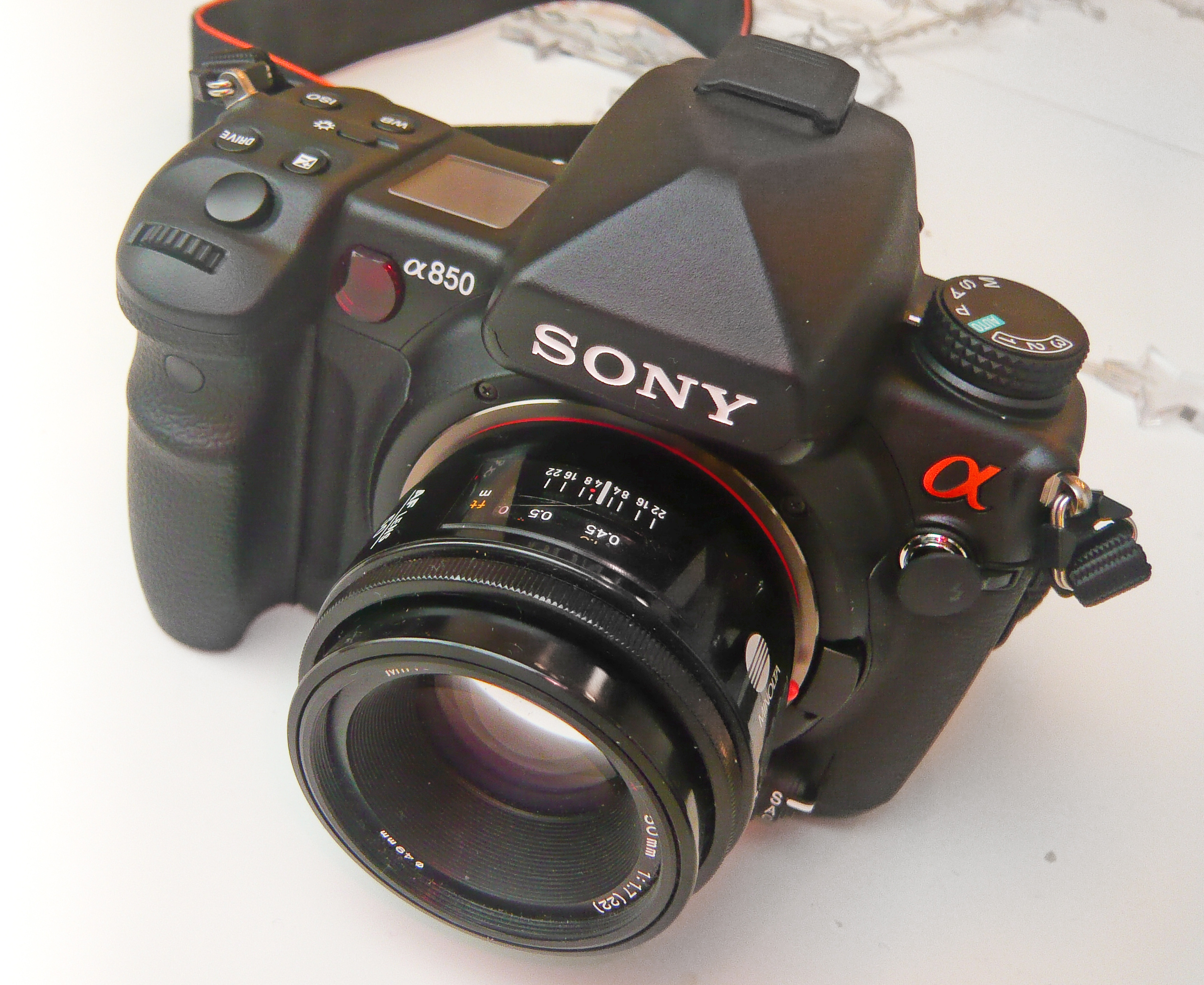 Sony Alpha 850 DSLR